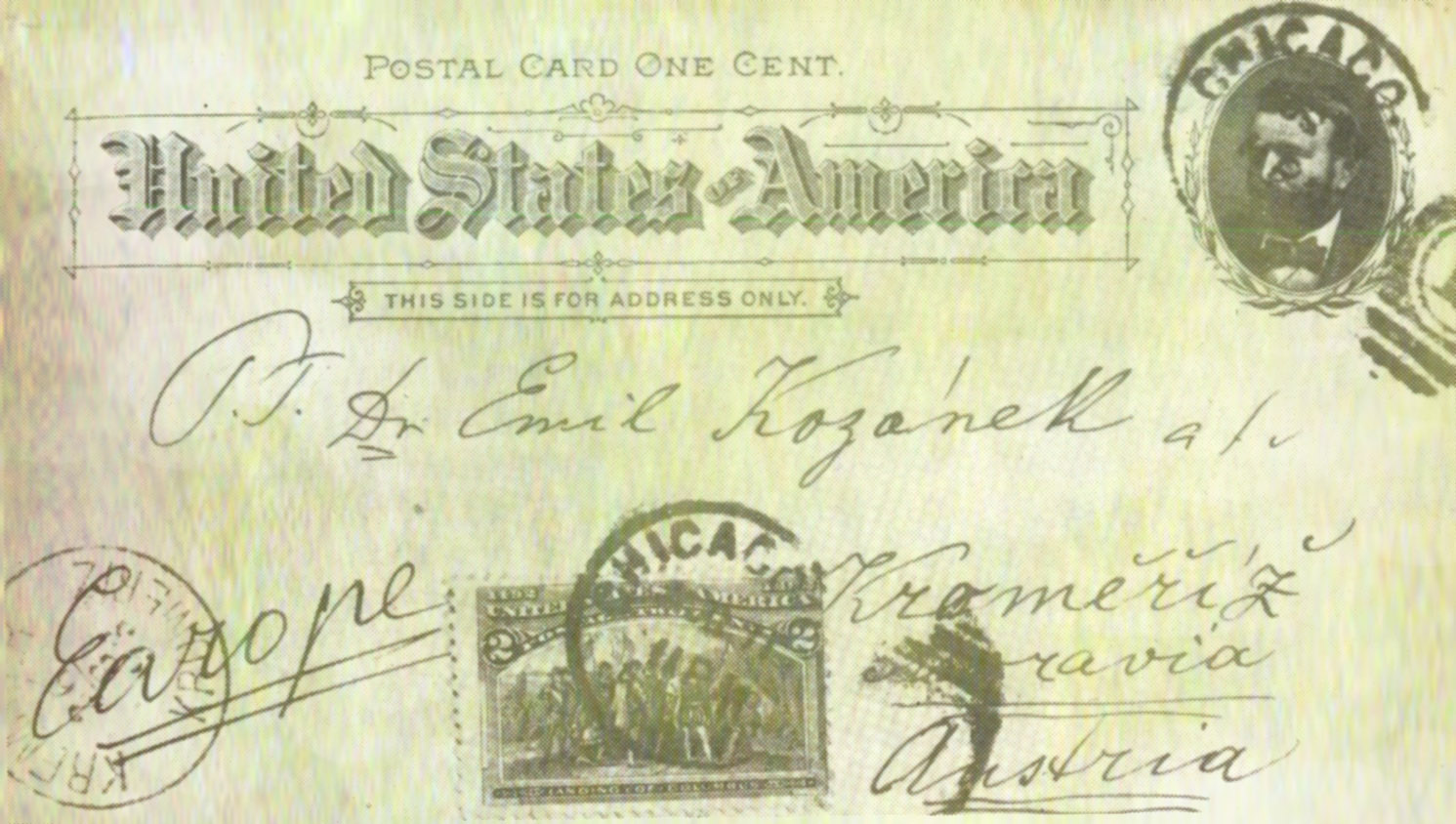 11. 8. 1893 postcard from Antonin Dvořák (Chicago, USA) to Karel Kozanek (Kroměříž, Moravia)